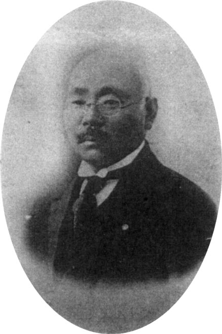 Kenryū Yoshida, former director of the Seventh Higher School.